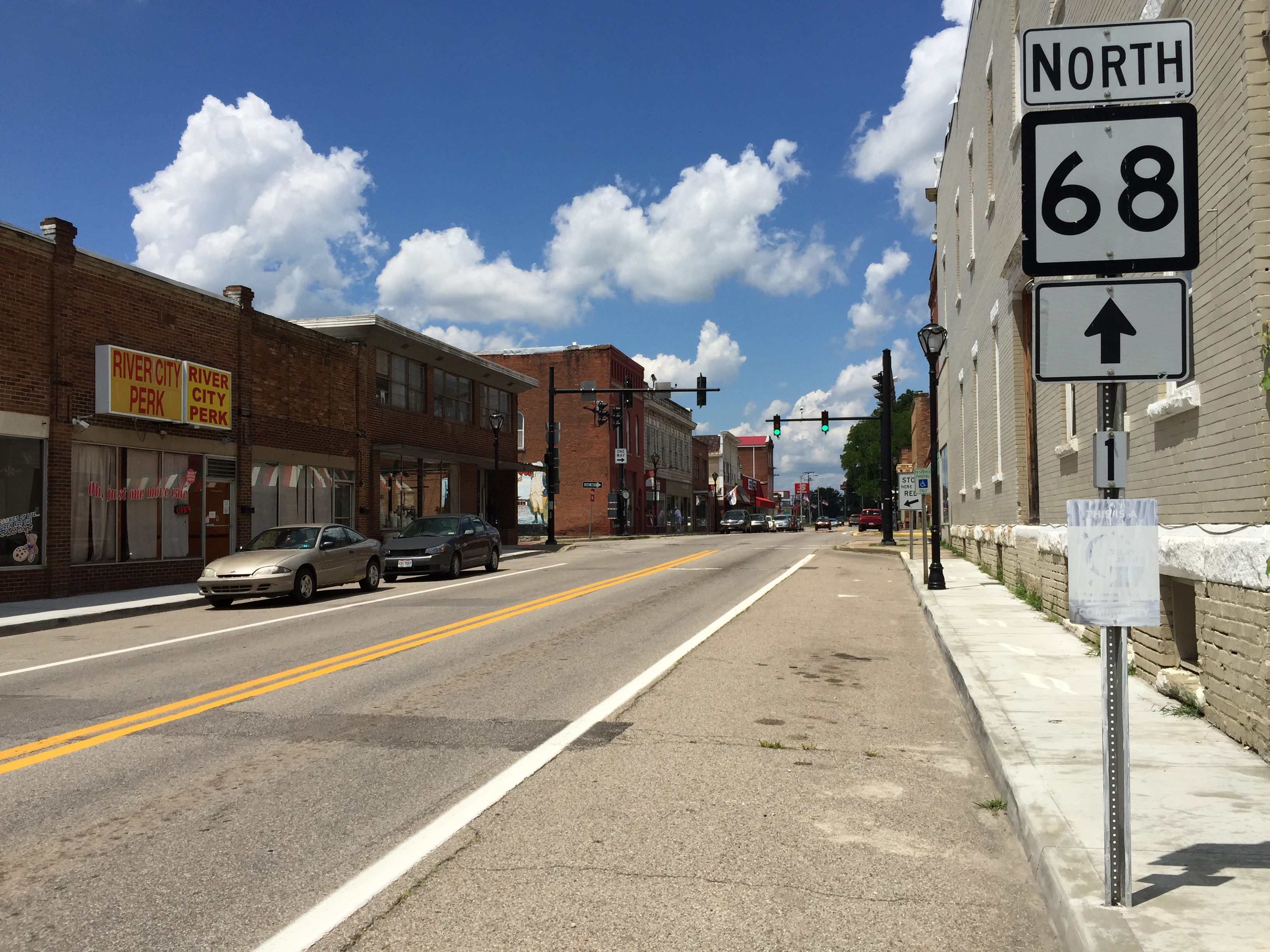 View north along West Virginia State Route 68 (Washington Street) between Sand Street and Walnut Street in Ravenswood, Jackson County, West Virginia